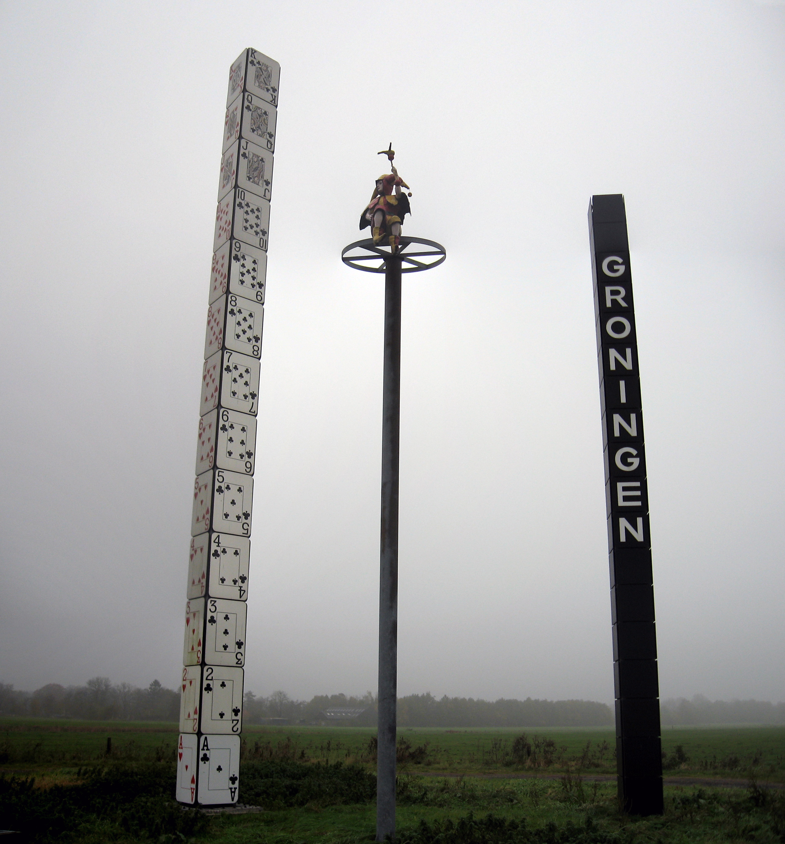 Part of the "city markings" of Groningen, The Netherlands